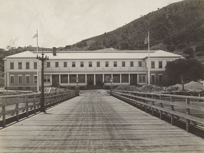 Slightly rotated to bring roofline closer to level and cropped to remove guide marks/color chart.